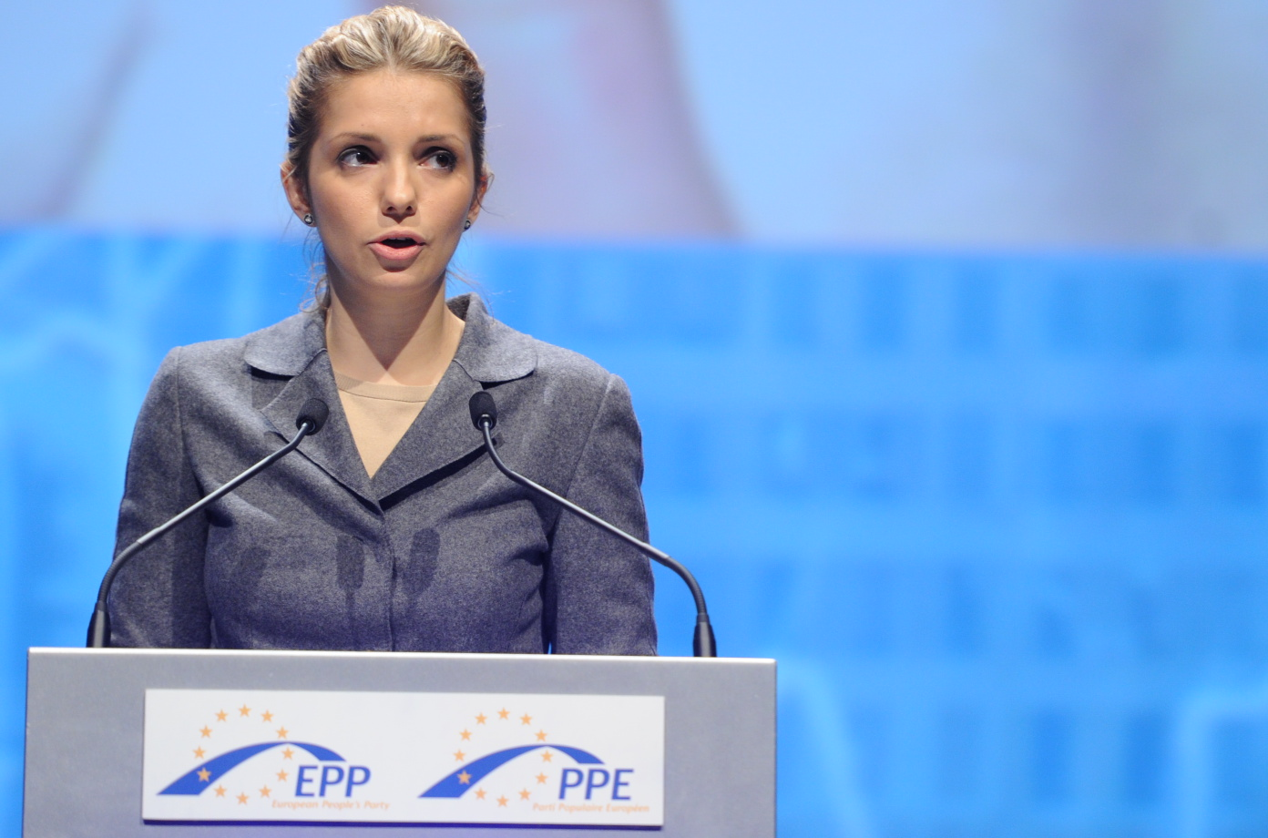 Yevhenia Tymoshenko, daughter of the former Ukrainian premier Yulia Tymoshenko - EPP Congress Marseille 2011